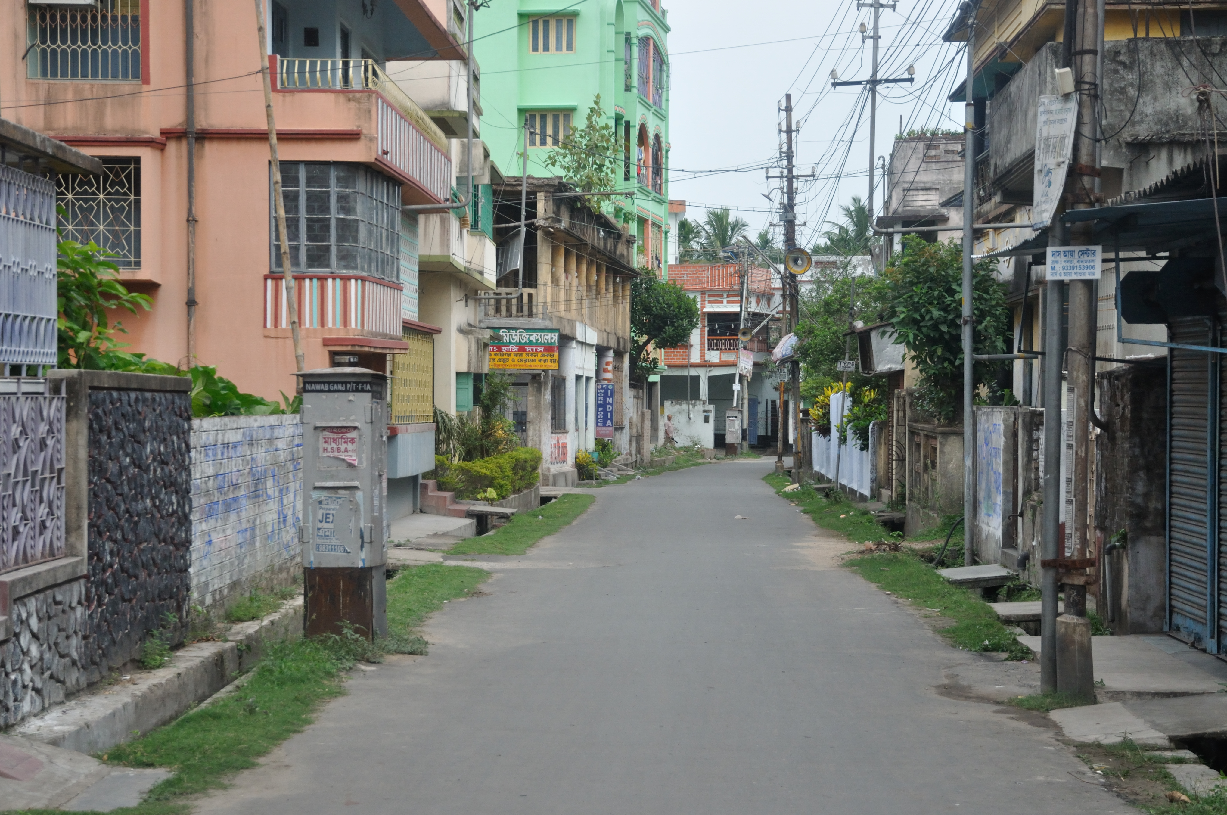 photographed in greater Kolkata.